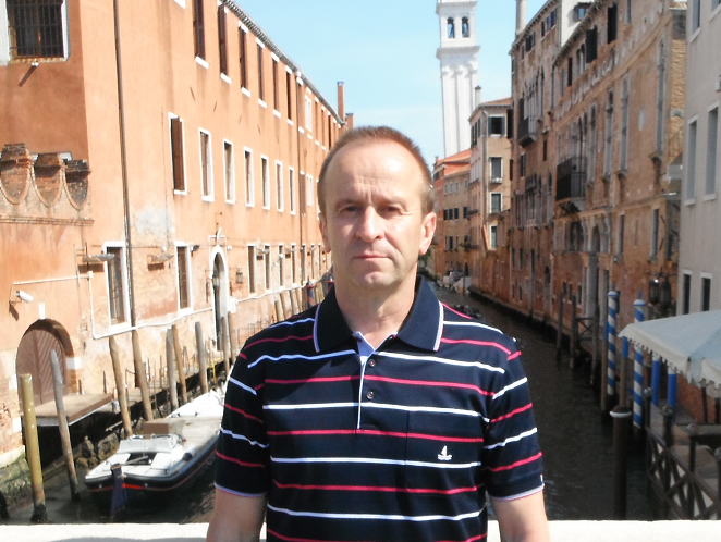 Dragan Djokanovic, Venice